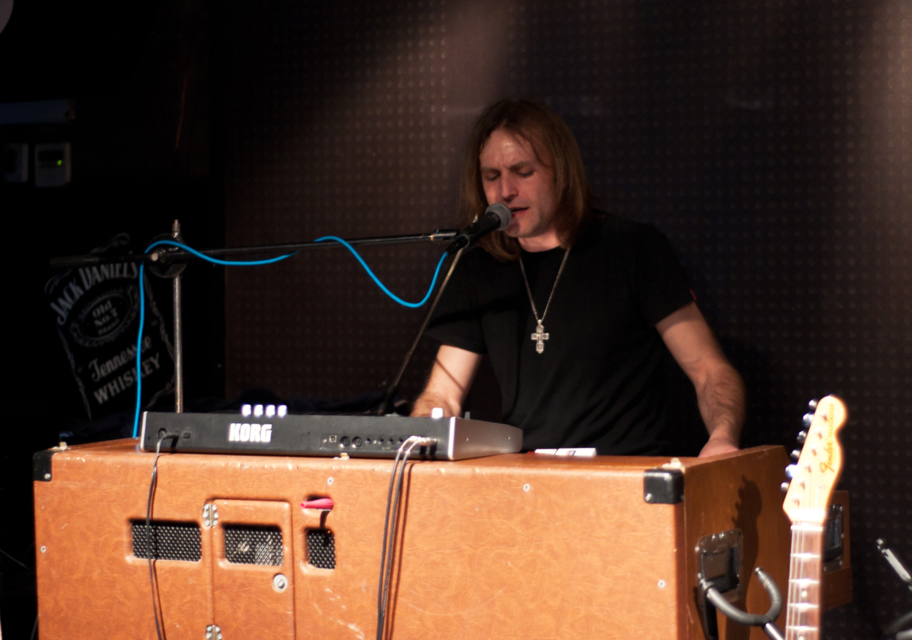 Yassen Dimitrov, Sunrize at Angel Heart Club, Sofia.